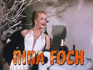 Cropped screenshot of Nina Foch from the trailer for the film An American in Paris